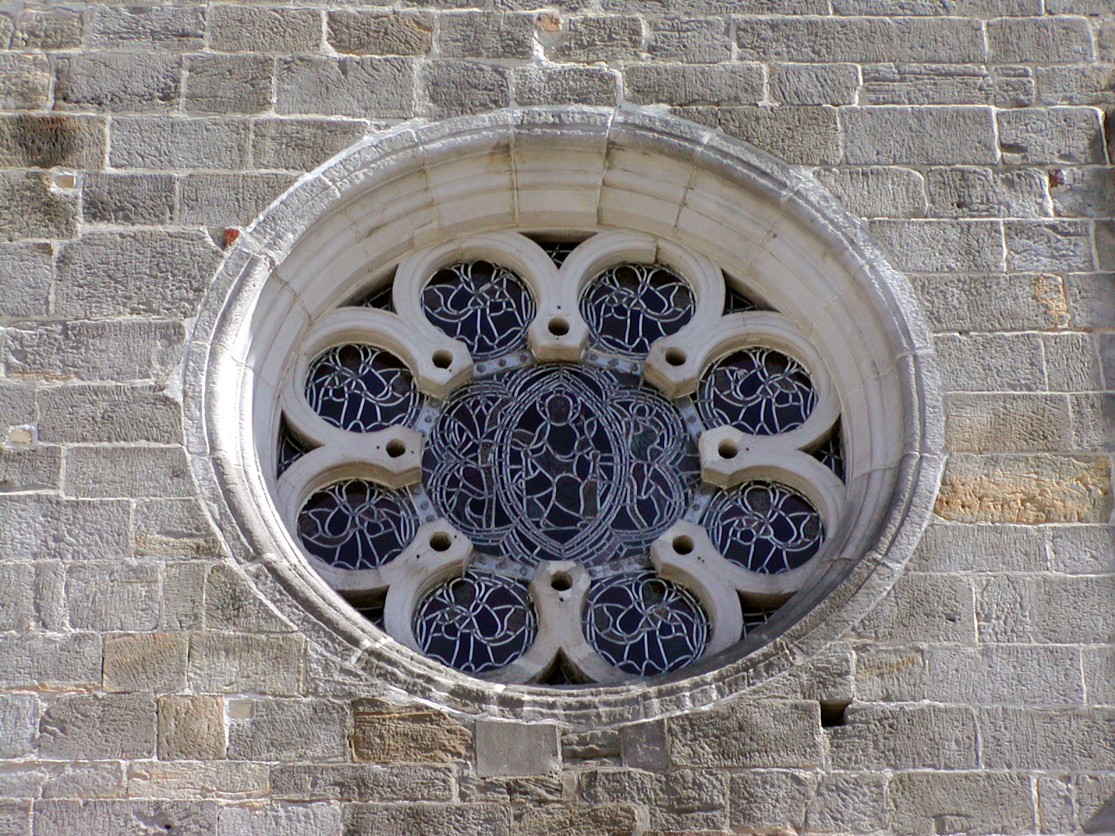 Saint Thomas of Canterbury church in Sulejów